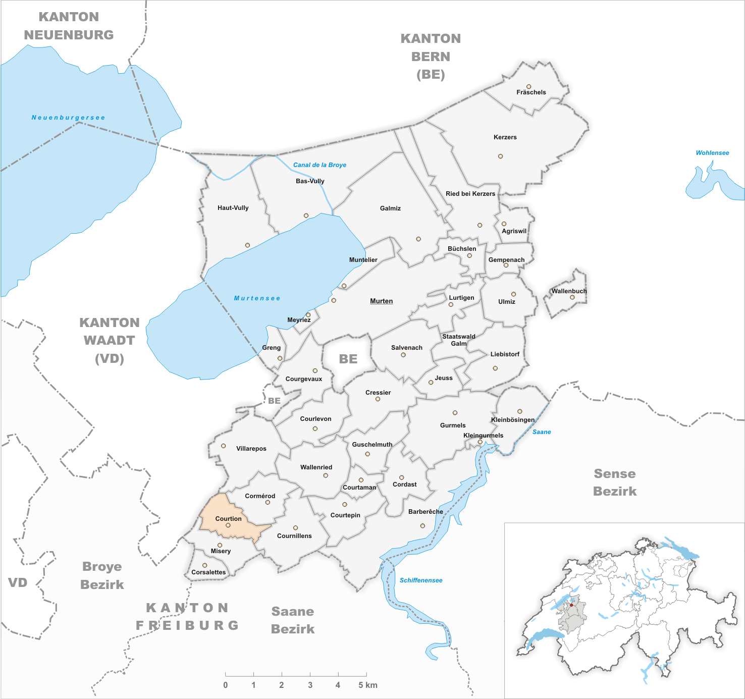 Municipality Courtion Artist: Tschubby